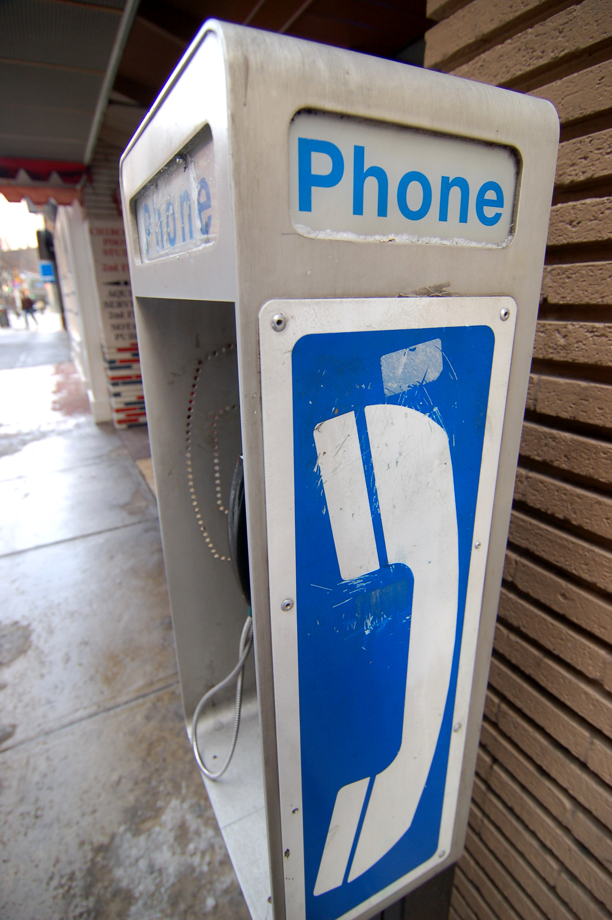 A photograph of a phone booth in Pittsburgh, Pennsylvania.